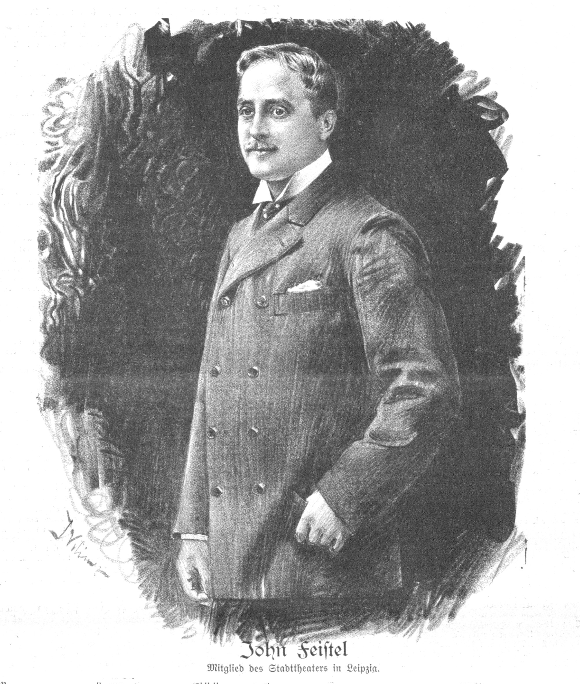 Portrait of John Feistel, German actor performing from 1892 till 1902 in Germany and then until the 1930s in New York.